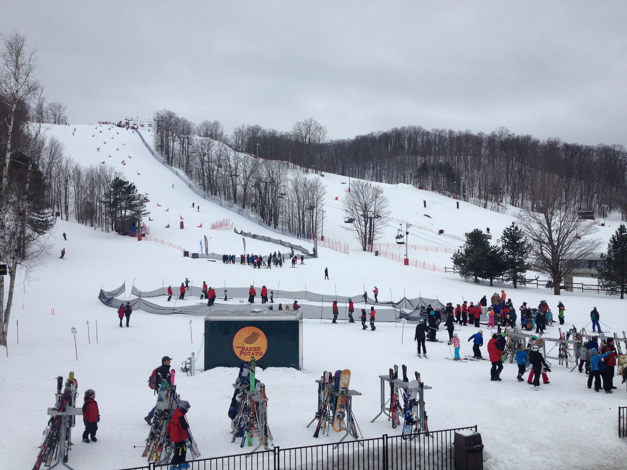 The ski hill at Horseshoe Resort in Ontario